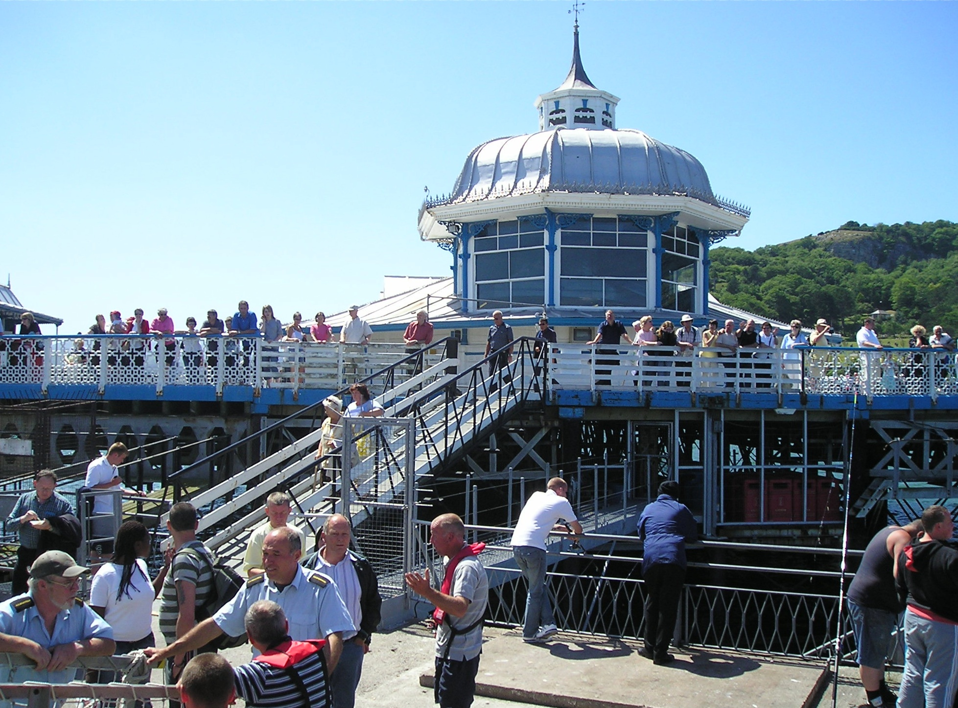 made by me Noel Walley